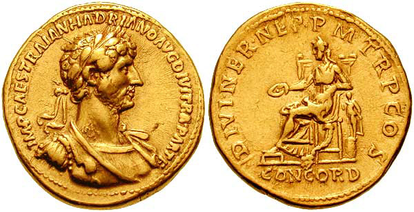 Hadrian AV Aureus. IMP CAES TRAIAN HADRIANO AVG DIVI TRA � PART F, laureate, draped and cuirassed bust right / DIVI � NER � NEP � P M TR P COS, CONCORD in ex, Concordia seated left with patera; cornucopiae below chair, statue of Spes behind.